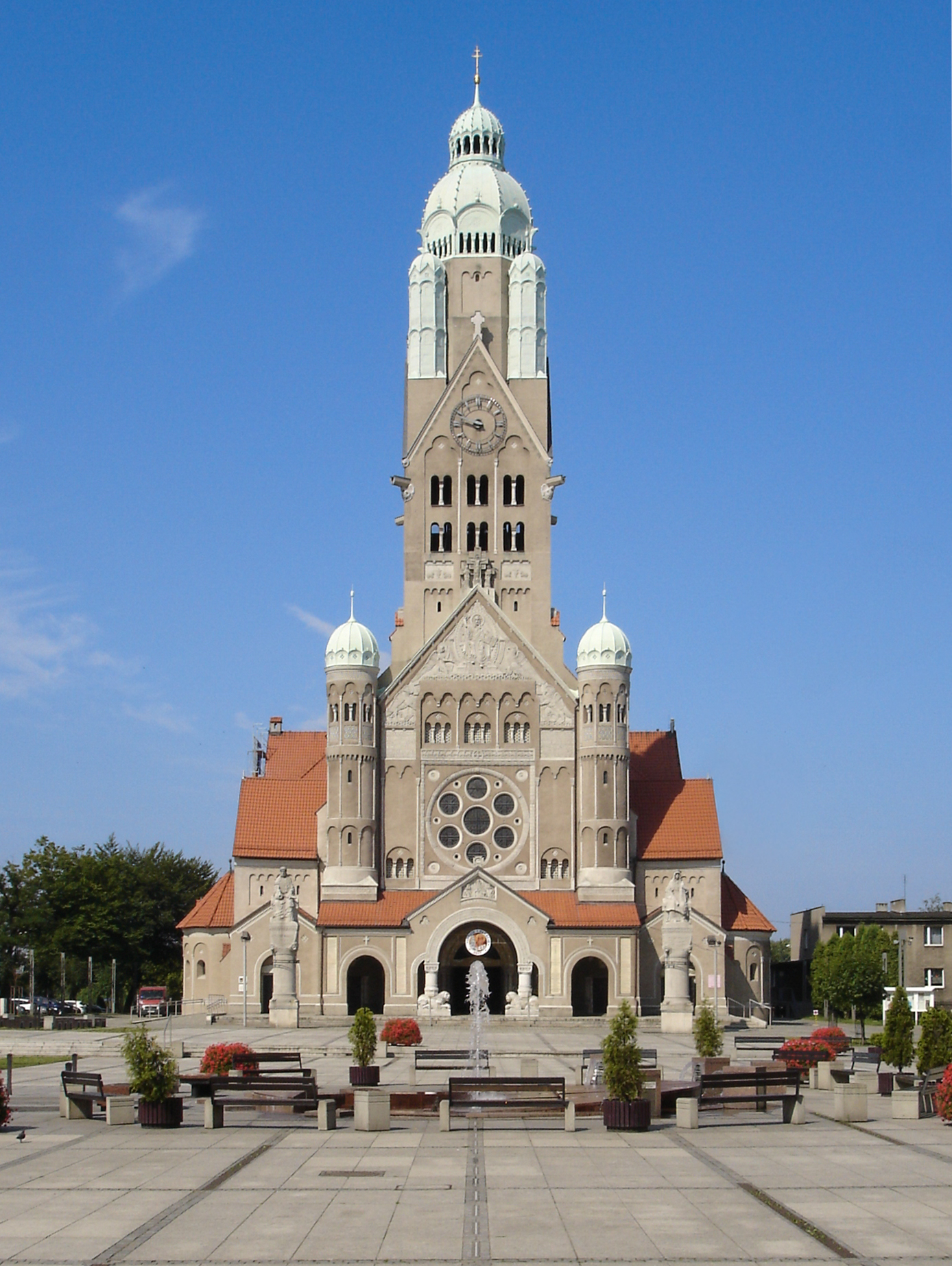 Saint Paul the Apostle catholic church in Nowy Bytom, Ruda Śląska, Poland. Heritage monument A/1493/92 z 27.08.1992.